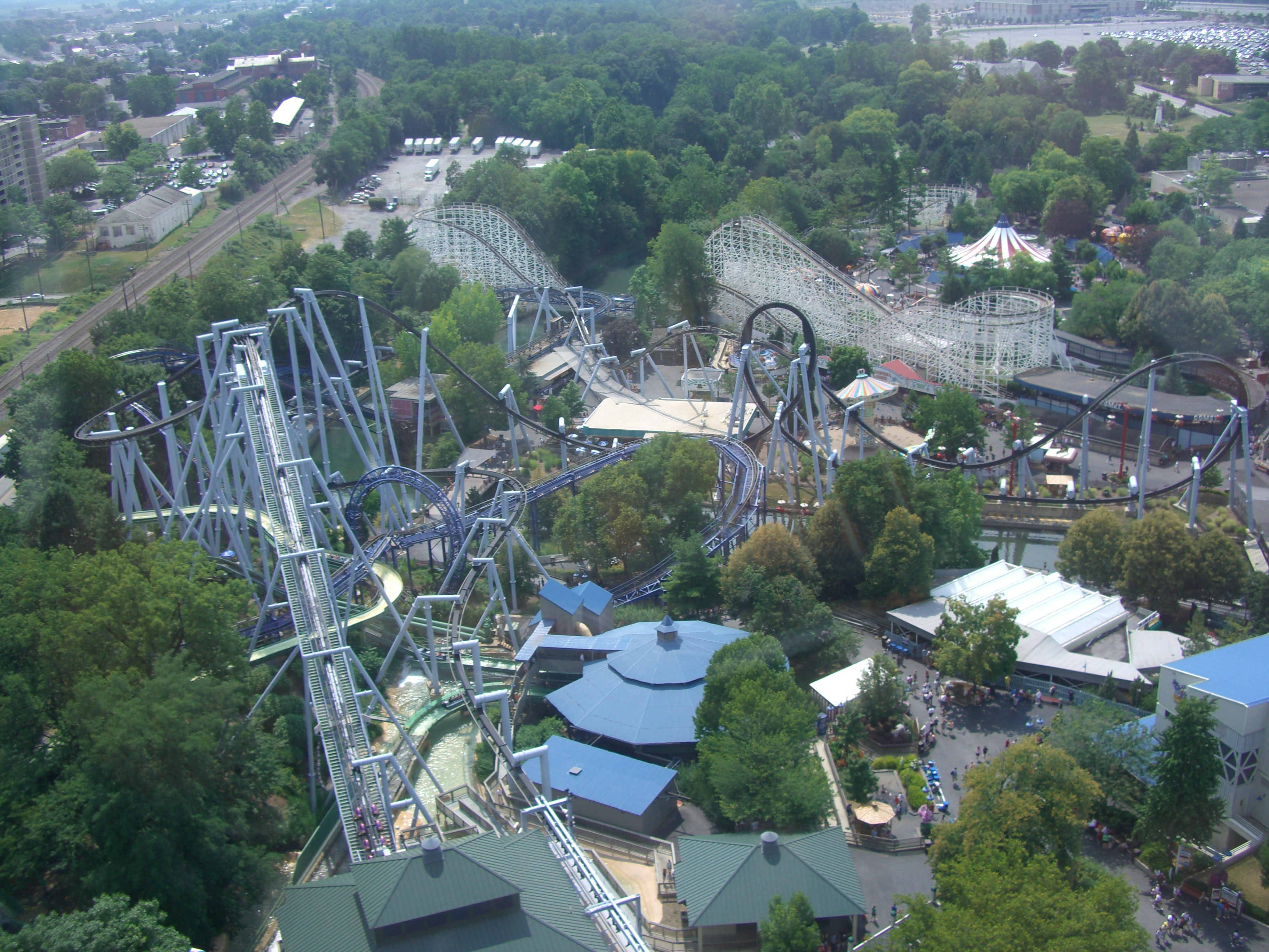 Great Bear's full layout at Hershey Park. Category:Roller coaster images The only requirement of this license is that you give me credit, otherwise the image is free.